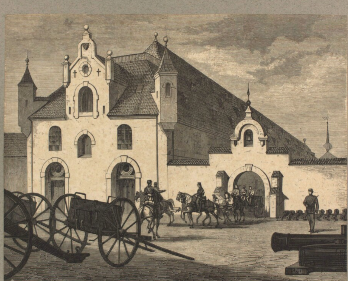 The east gable of Tøjhuset seen from Christians Brygge in Copenhagen, Denmark